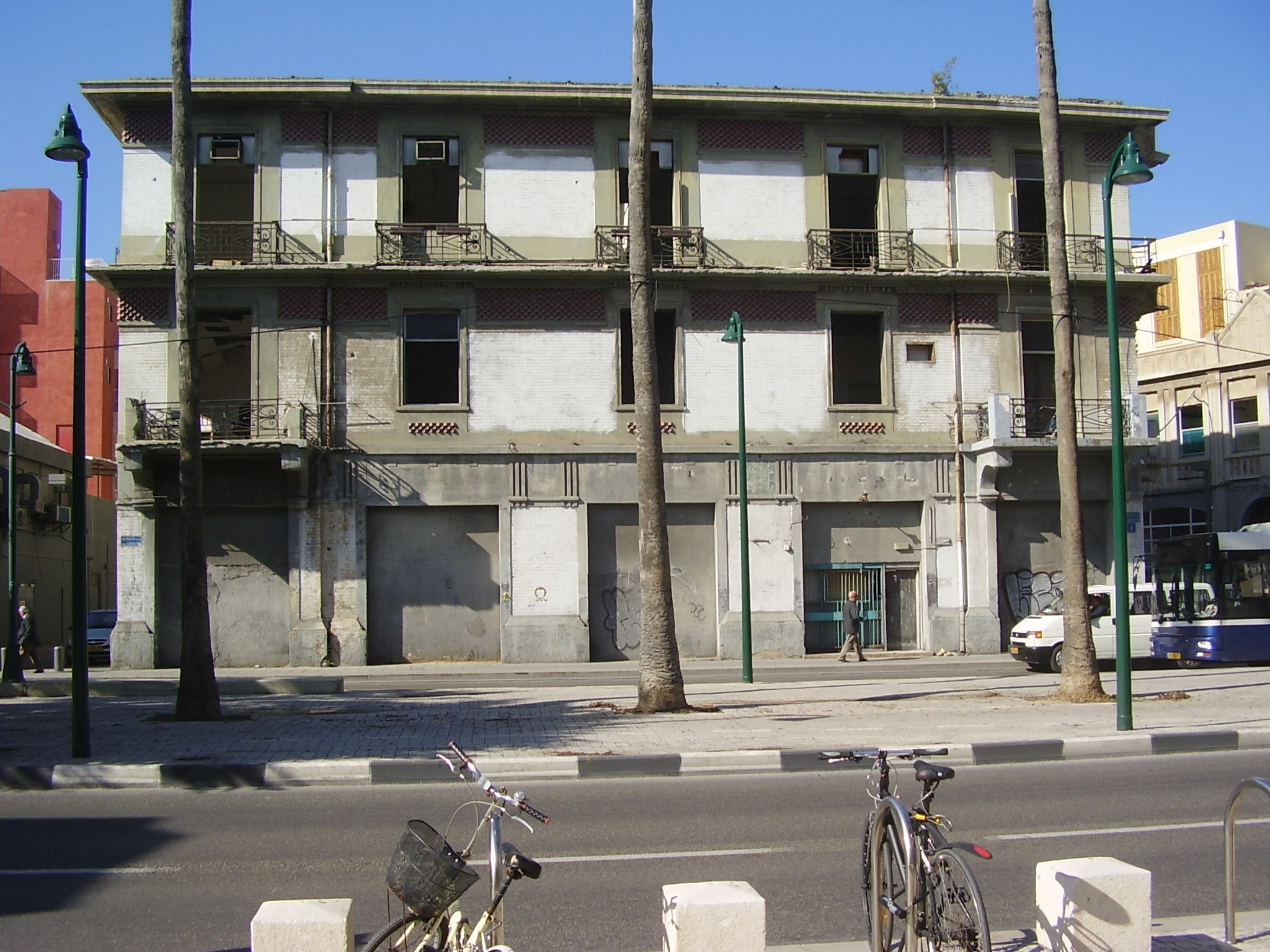 jerusalem boulevard 8, jaffa